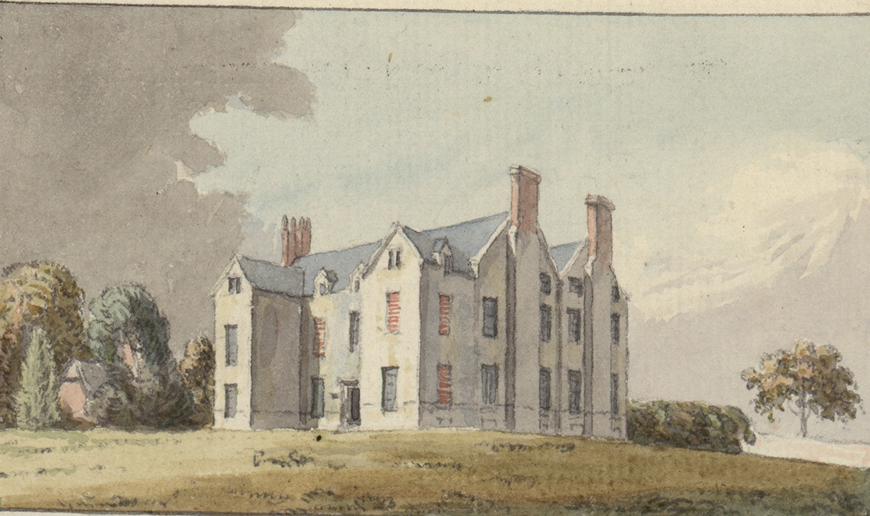 An image from a set of 8 extra-illustrated volumes of A tour in Wales by Thomas Pennant (1726-1798) that chronicle the three journeys he made through Wales between 1773 and 1776. These volumes are unique because they were compiled for Pennant's own library at Downing. This edition was produced in 1781. The volumes include a number of original drawings by Moses Griffiths, Ingleby and other well known artists of the period. Thomas Pennant (1726-1798)